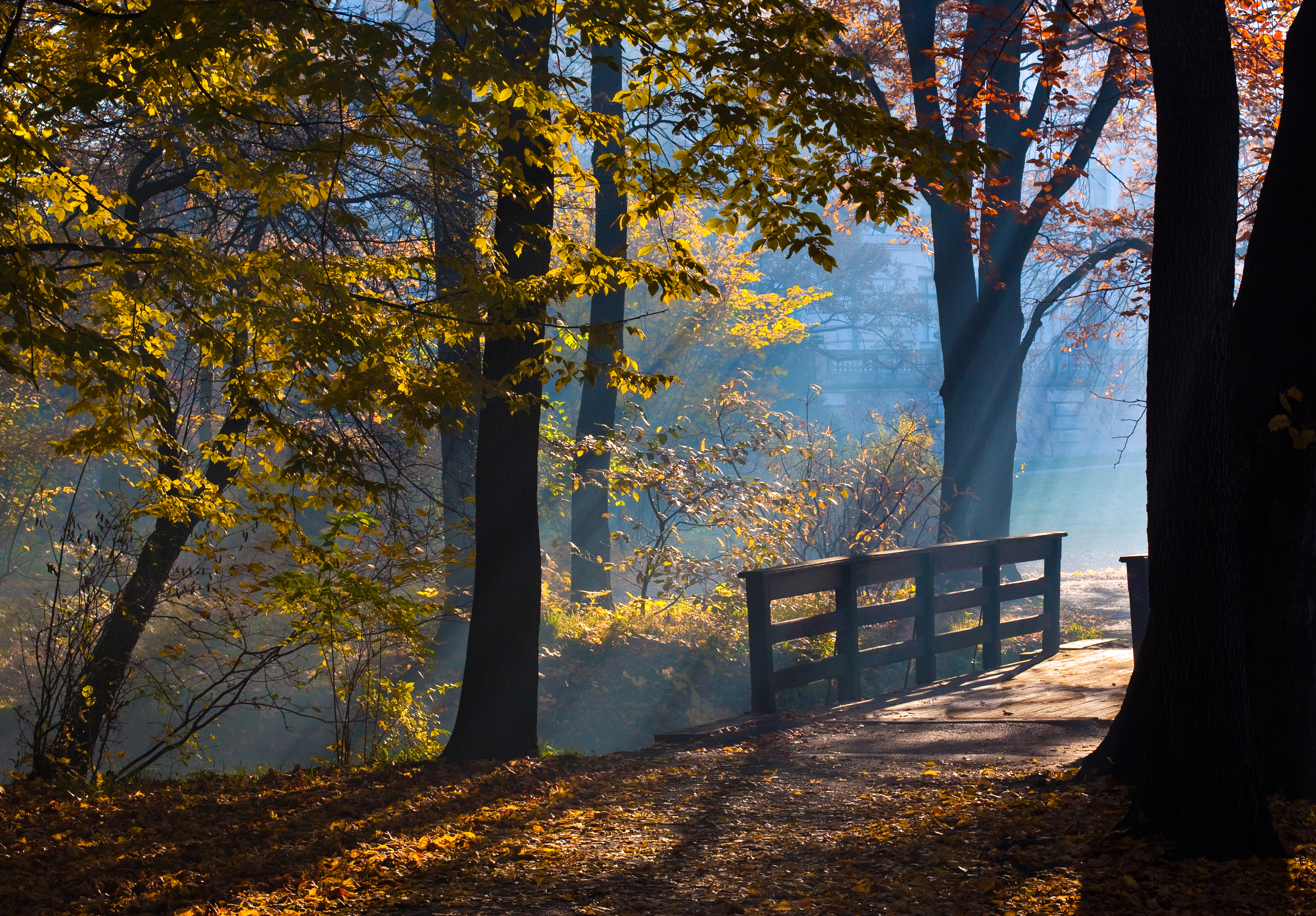 Heritage castle park in Pszczyna, Poland.